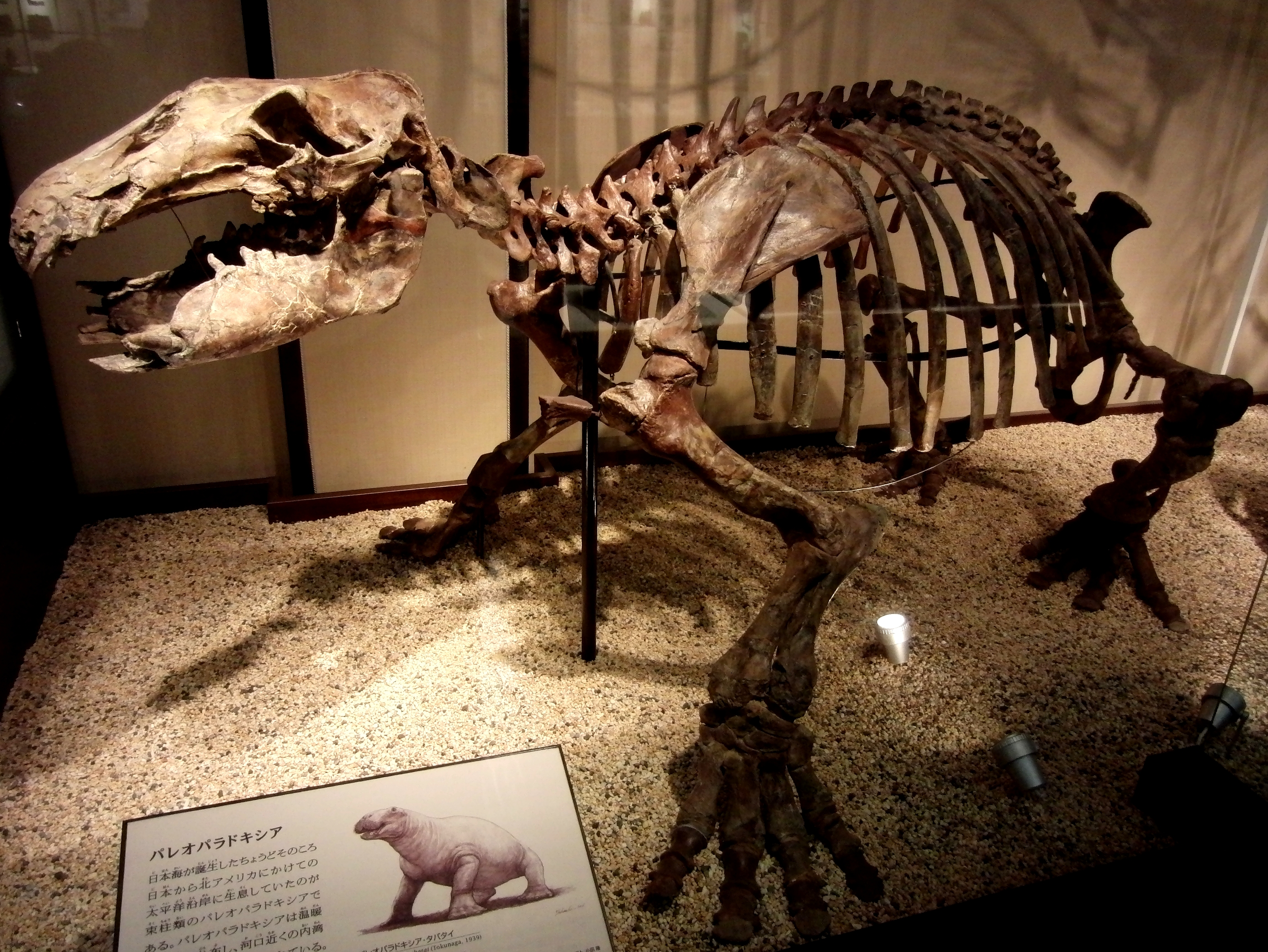 Skeleton of Paleoparadoxia (Paleoparadoxia tabatai). Neotype. Exhibit in the National Museum of Nature and Science, Tokyo, Japan.